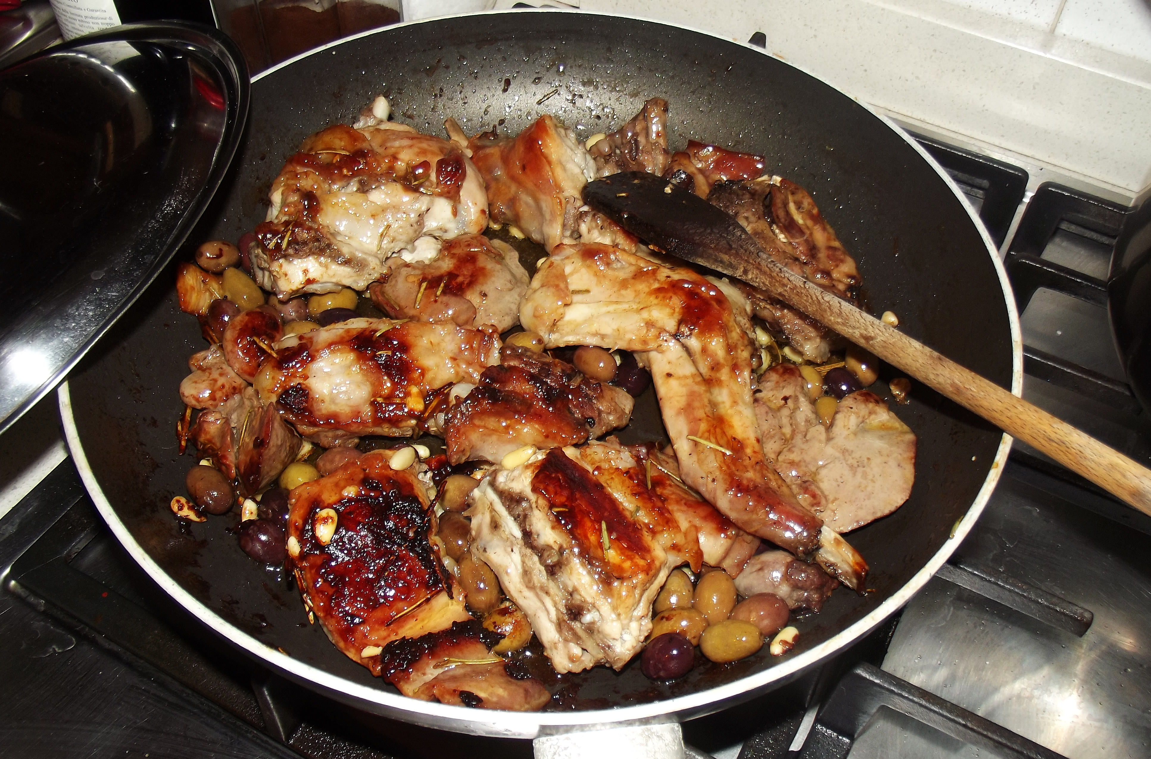 Ligurian style rabbit with olives and pine nuts